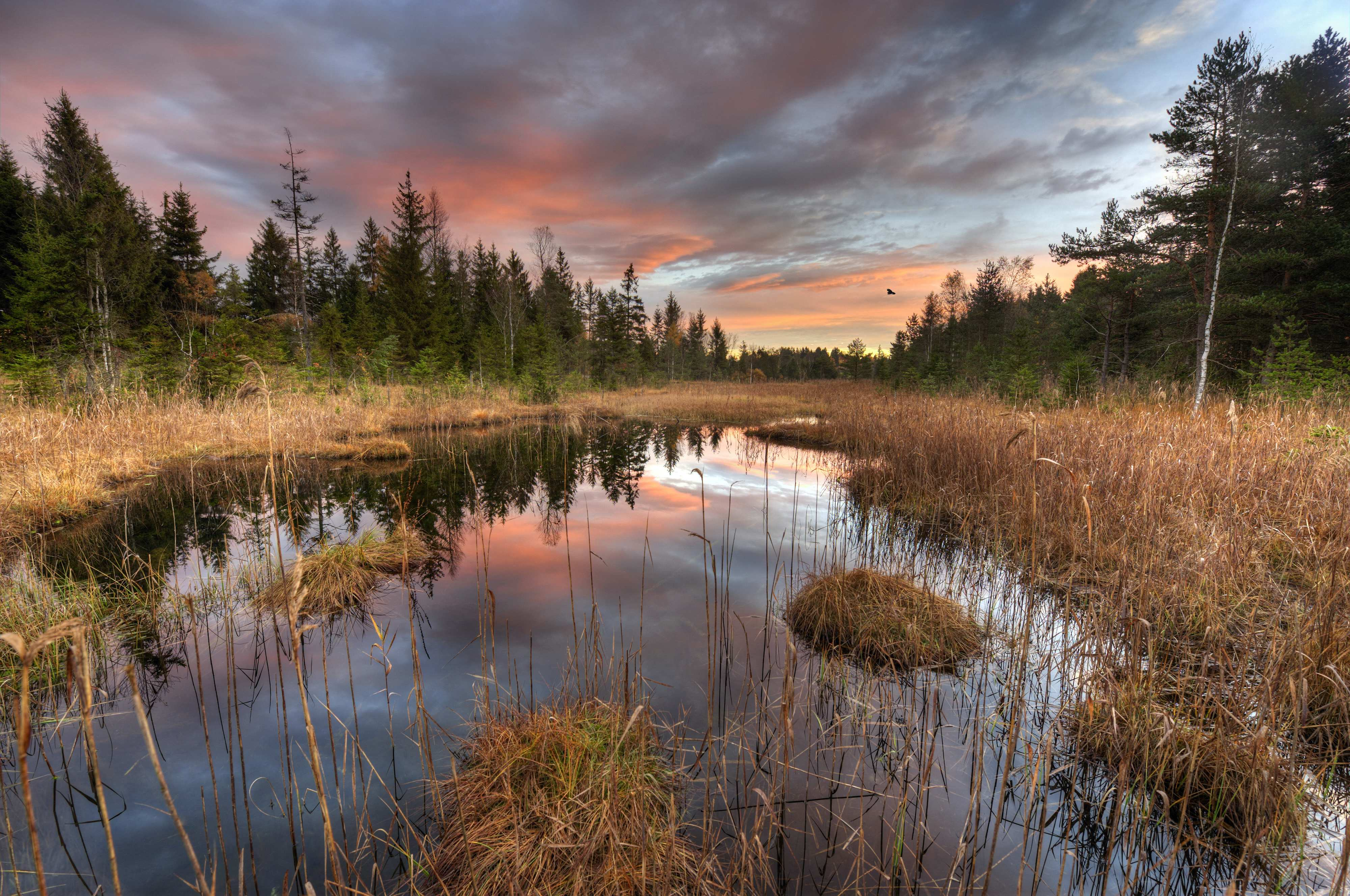 Kaltenbachquelle im Kirchsee-Filz, a source and geotope near Sachsenkam, district Bad Tölz-Wolfratshausen, Bavaria, Germany. Local geotope-ID 173Q001. The Kaltenbachquelle is also part of "Ellbach- und Kirchseemoor" nature reserve.